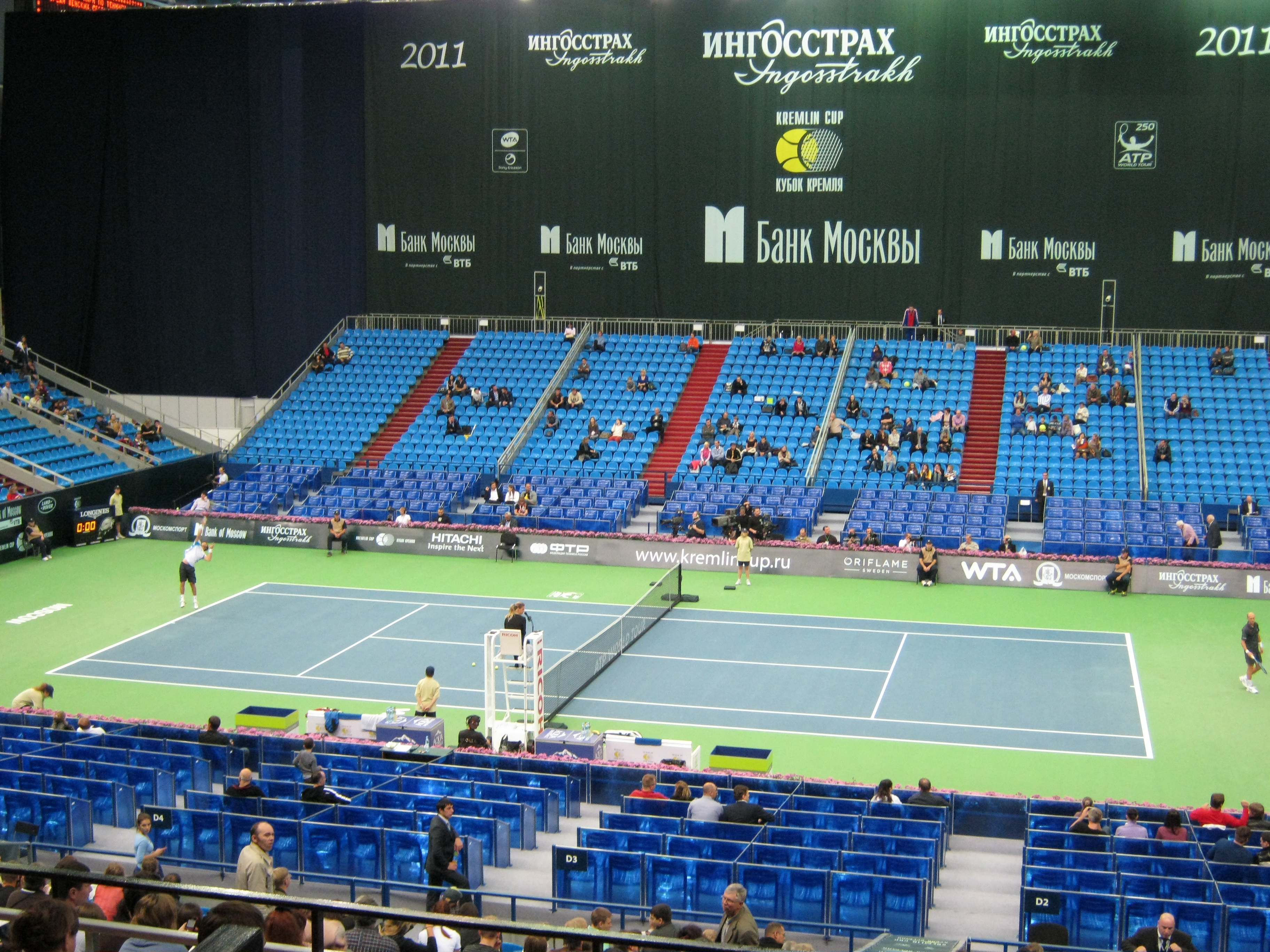 Moscow. Kremlin Cup 2011. Central court